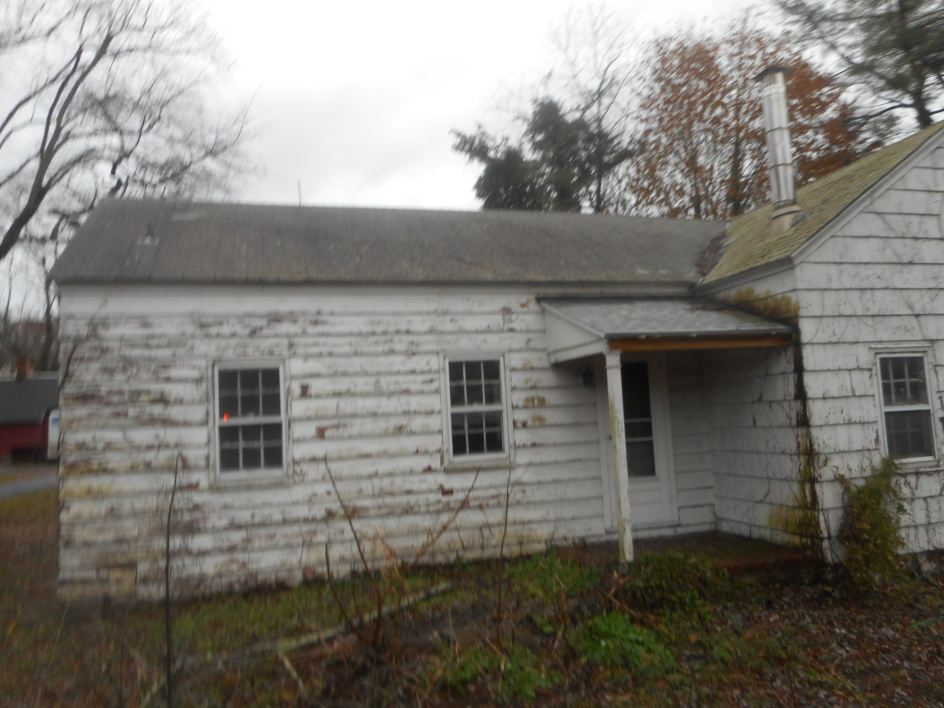 Sneaky shot of the NRHP-listed Carll House at 380 Deer Park Avenue in Dix Hills, New York. The house was hidden behind a semi-tall wooden fence. Luckily, the photographer is tall enough that he can take a shot of the house by pointing the camera over the fence. You're welcome.